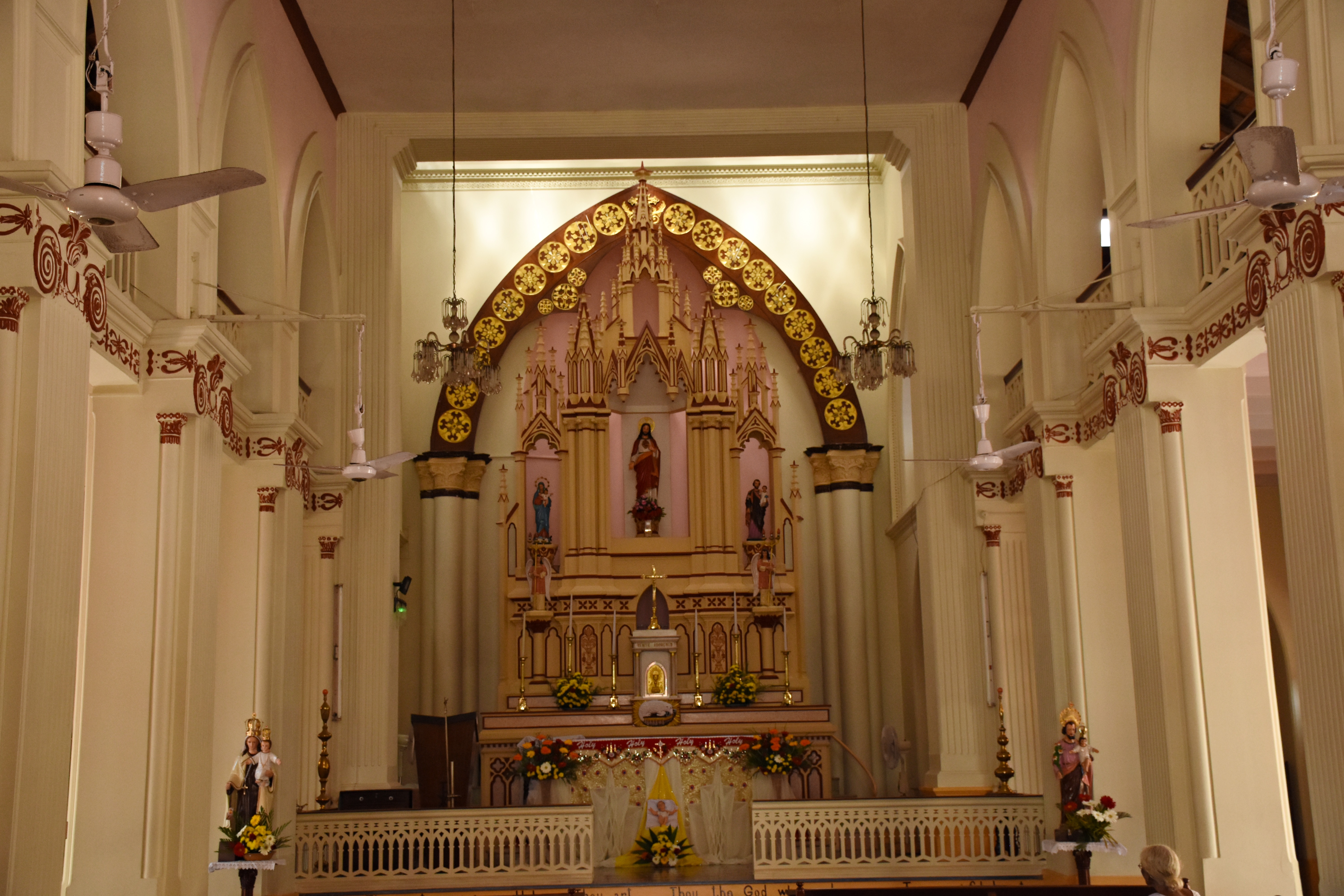 Chapel and Convent constructed in 1936 marking 50th anniversary of the Sacred Heart Girls School run by the Apostolic Carmel nuns. The old fashioned building is still keeping up its charm